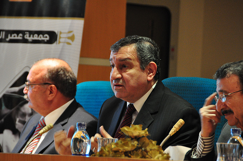 Dr. Essam Sharaf the prime minister of Egypt.